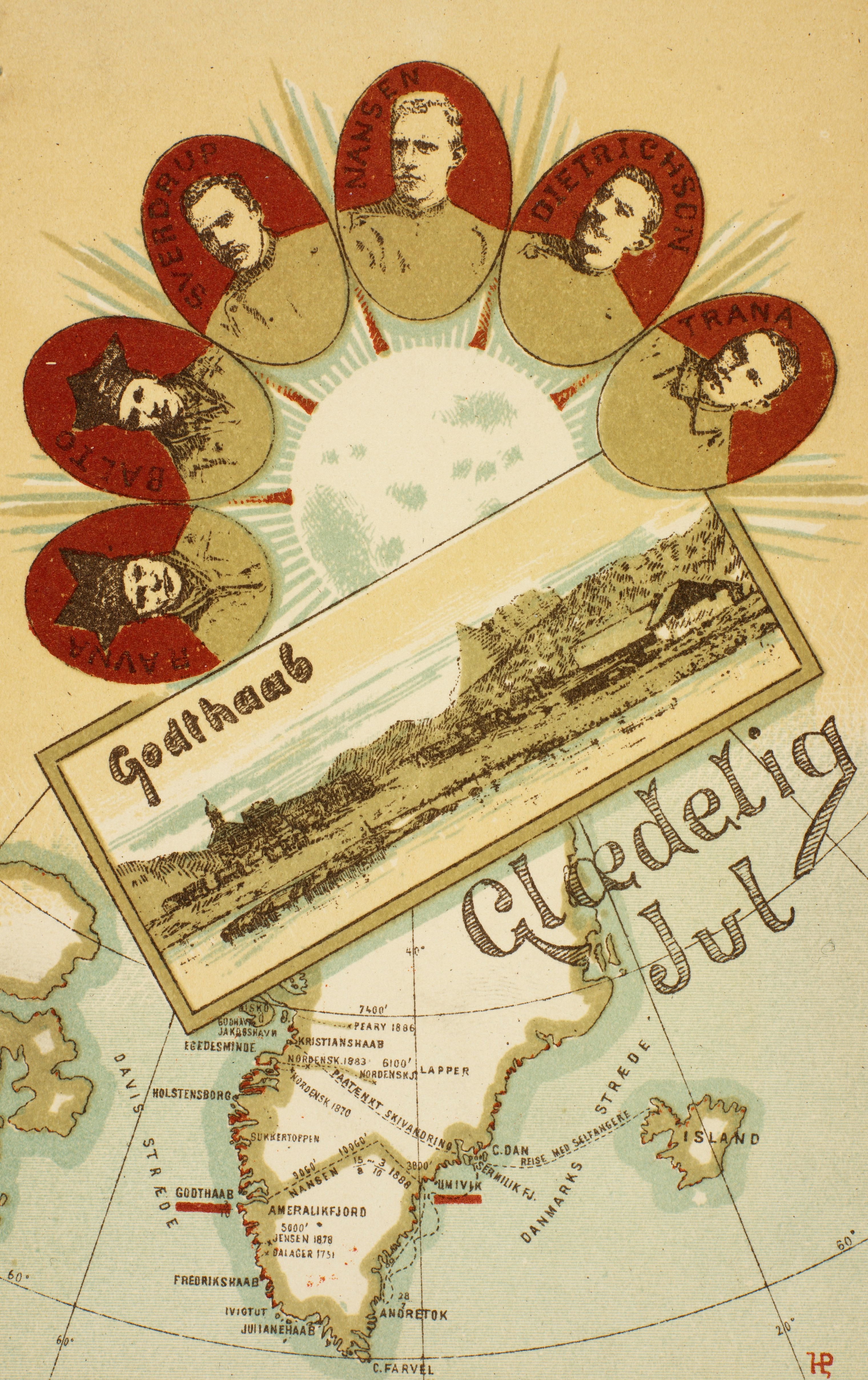 Postcard with portraits of the members of the Greenland Expedition: Ole (Nielsen) Ravna, Samuel (Johansen) Balto, Otto Neumann Knoph Sverdrup, Fridtjof Nansen, Oluf Christian Dietrichson and Kristian Kristiansen (Trana). A picture from Godthaab and a map of Greenland are also included.